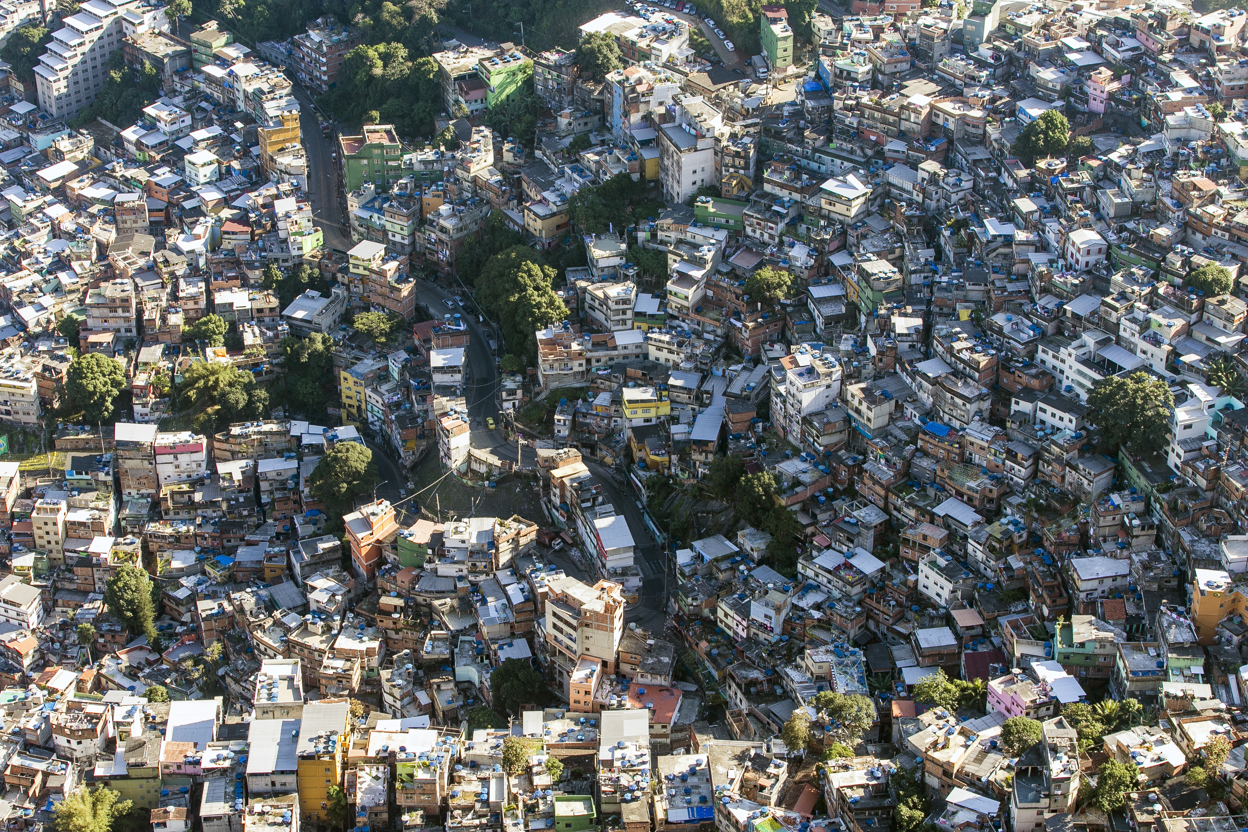 main road winding through rocinha favela rio de janeiro 2014